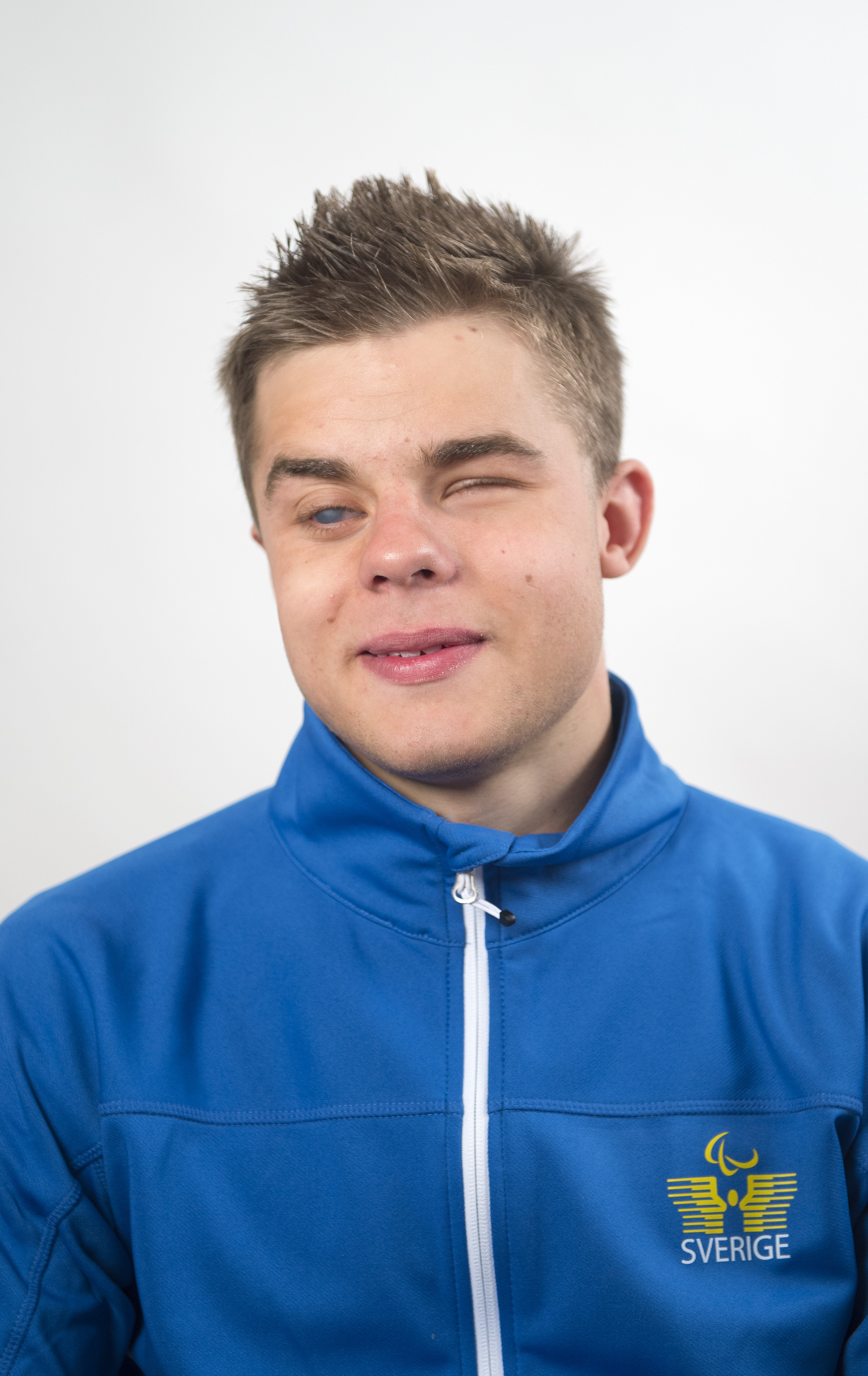 Swedish cross-country skier Zebastian Modin. Modin competes in the visually impaired B1-class and has won two bronze medals at the Winter Paralympics of 2010 and 2014.